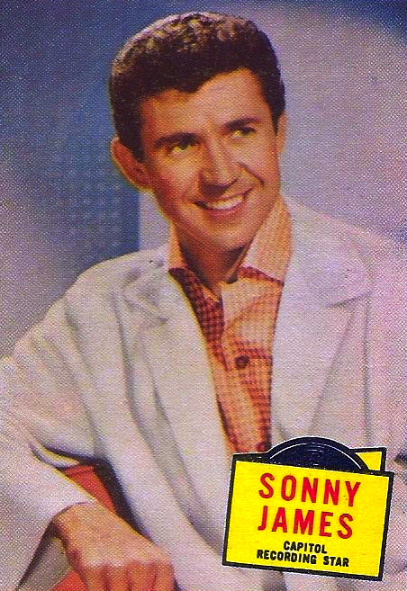 Trading card photo of Sonny James. In 1957, Topps gum cards issued a series of movie stars, television stars and recording stars. He was part of their recording stars cards.